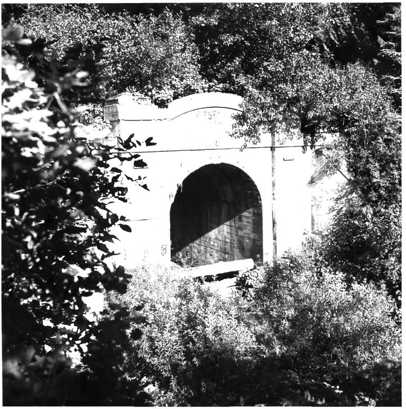 Stephens Pass First tunnel for railroad route, Kings County, Washington.